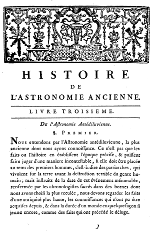 First page of the chapter De l'astronomie Antédiluvienne of the Histoire de l'astronomie ancienne by Jean Sylvain Bailly.